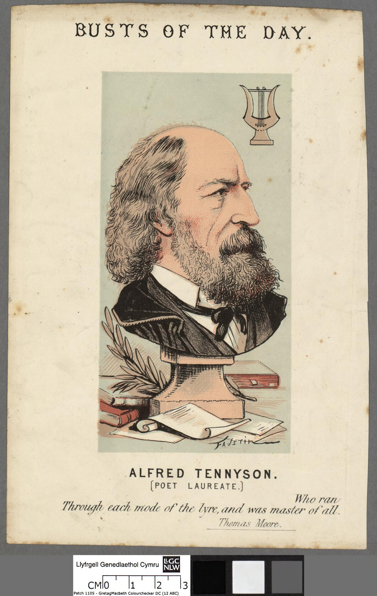 A portrait from the Welsh Portrait Collection at the National Library of Wales. Depicted person: Alfred, Lord Tennyson – British poet and Poet Laureate of Great Britain and Ireland (1809-1892)